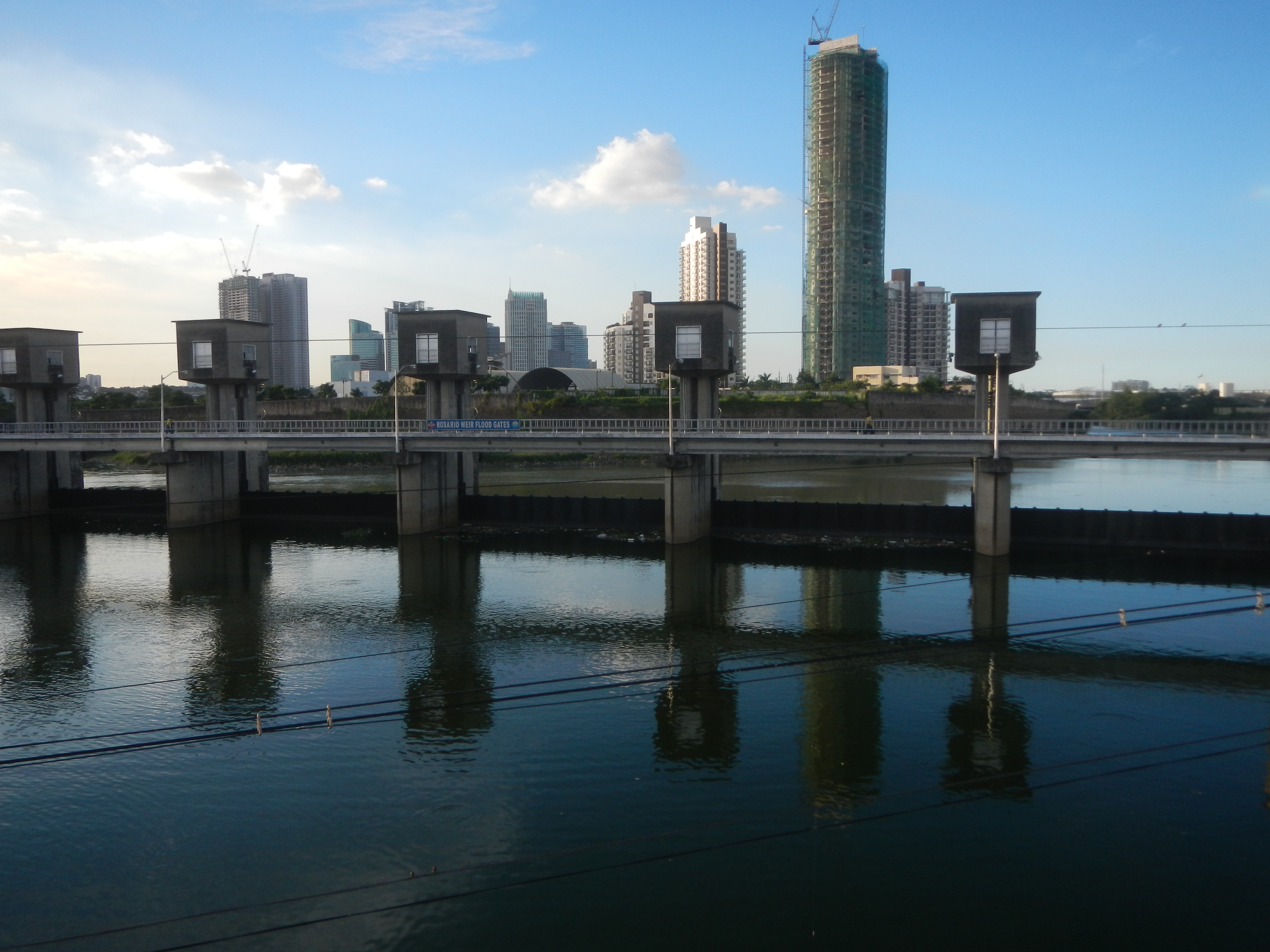 Rosario Weir Flood Gates Manggahan Floodway Landmarks (include the Manggahan Floodway - Daang Pasig Bridge - Rosario Weir Flood Gates (Pasig River, East Bank Road - Victorio G. Ignacio Boulevard - Amang Rodriguez Avenue, Pasig City) 20 metric tons Load limit K0019+819 - K0019+611 Length 208 meters from Marikina–Infanta Highway Marcos Highway or MARILAQUE Highway or Manila-Rizal-Laguna-Quezon, Pasig PS-25, Barangay Manggahan Hall, Super Health Center, Pasig City Multi-Purpose Building and Manngahan Gender and Development Center Complex Metropolitan Manila Development Authority, Flood Control and Sewerage Management, First East Metro Manila Flood Control Operation FEMMFCOD Effective Flood Control Operation System EFCOS Project Steel Centre Philippines, Inc. Daang Pasig Bridge 14°35'50"N 121°5'24"E Manggahan Floodway Latitude: 14.533700 Longitude: 121.129997 Rosario Weir Flood Gates Metropolitan Manila Development Authority East Bank Road 14°33'58"N 121°6'31"E Victorio G. Ignacio Boulevard Boulevard Eulogio Amang Rodriguez Avenue 14°36'24"N 121°5'31"E Legislative district of Pasig City List of barangays of Metro Manila, Barangays, Dela Paz 14°36'49"N 121°5'53"E Manggahan 14°36'2"N 121°5'51"E Pasig City; (Note: Judge Florentino Floro, the owner, to repeat, Donor Florentino Floro of all these photos hereby donate gratuitously, freely and unconditionally all these photos to and for Wikimedia Commons, exclusively, for public use of the public domain, and again without any condition whatsoever).